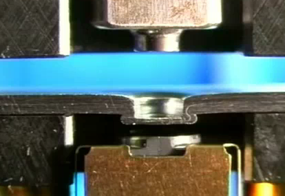 Clinching process